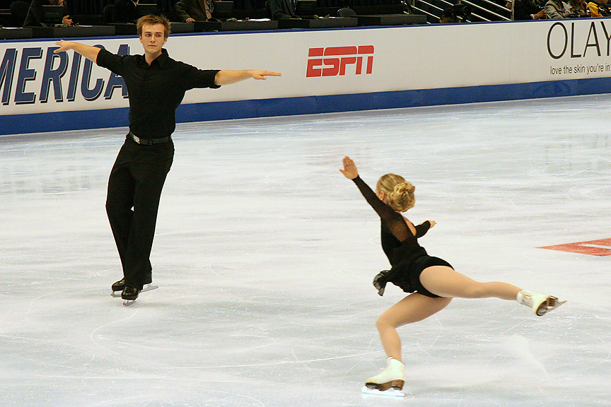 Anabelle Langlois and Cody Hay land a throw jump at the 2006 Skate America.